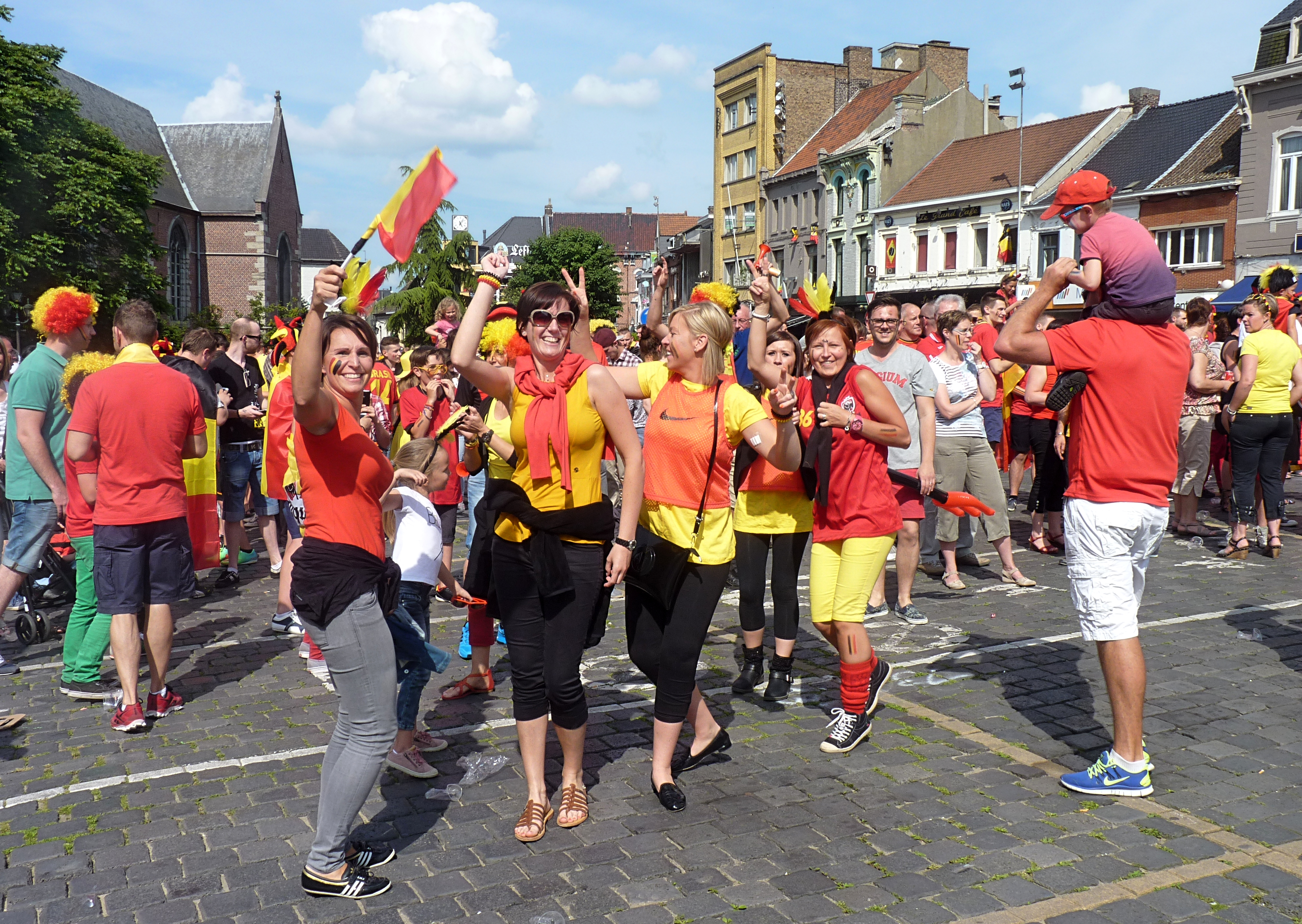 Supporters of the Belgian national football team, photo taken on the town square of Mouscron, Belgium before the match Belgium - Russia of the world cup 2014 broadcast on large screen.